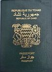 Front cover of a Chadian passport